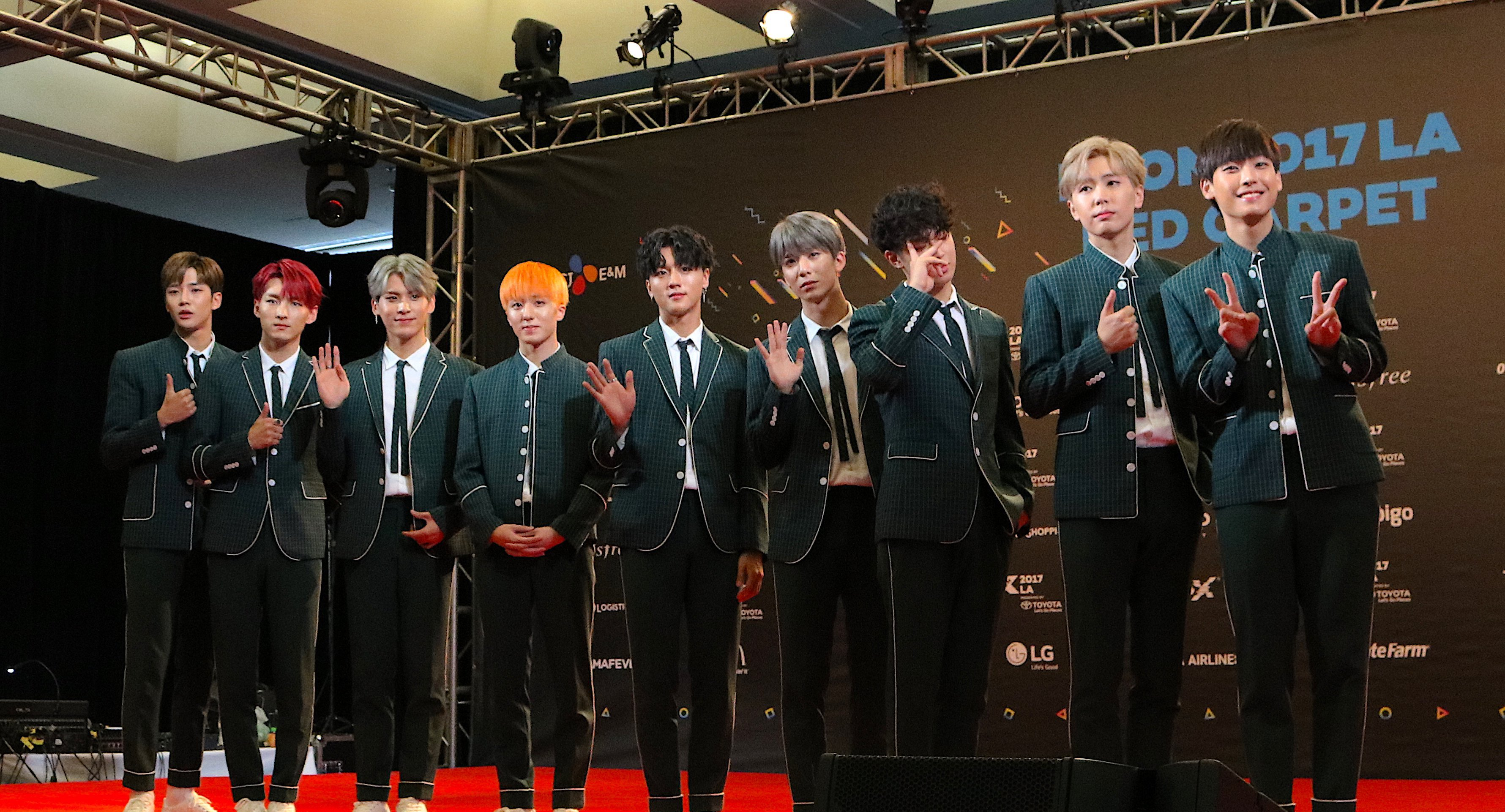 SF9 at KCon 2017 LA